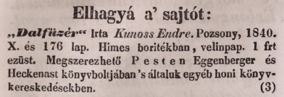 Advertisement of a book